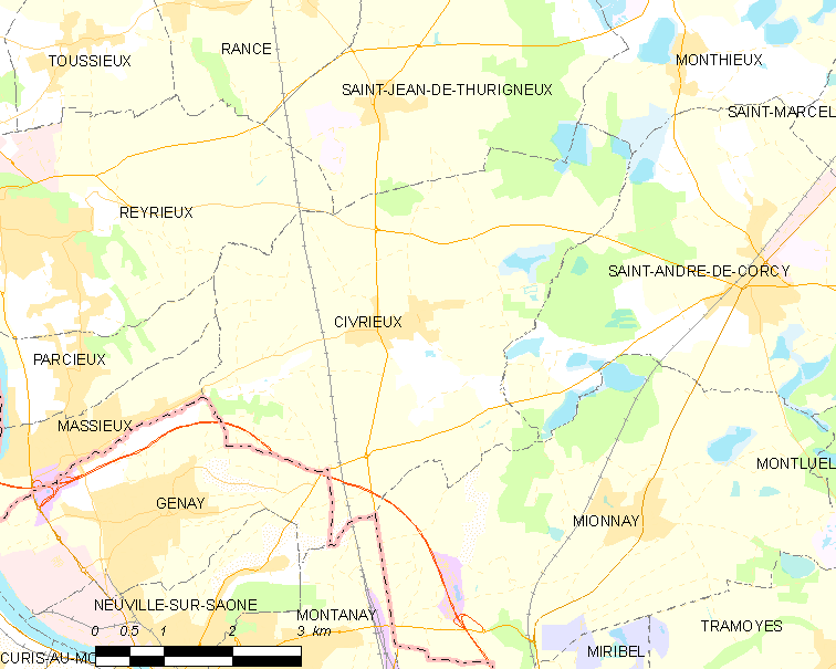 Map of French commune: Civrieux Map commune FR insee code 01105.png